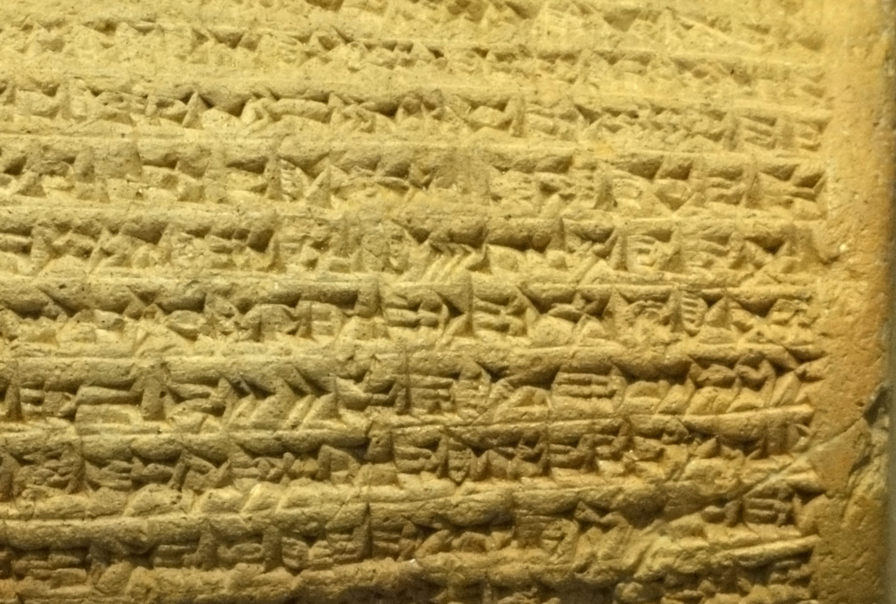 Sample detail from one side of the cylinder to illustrate the script.